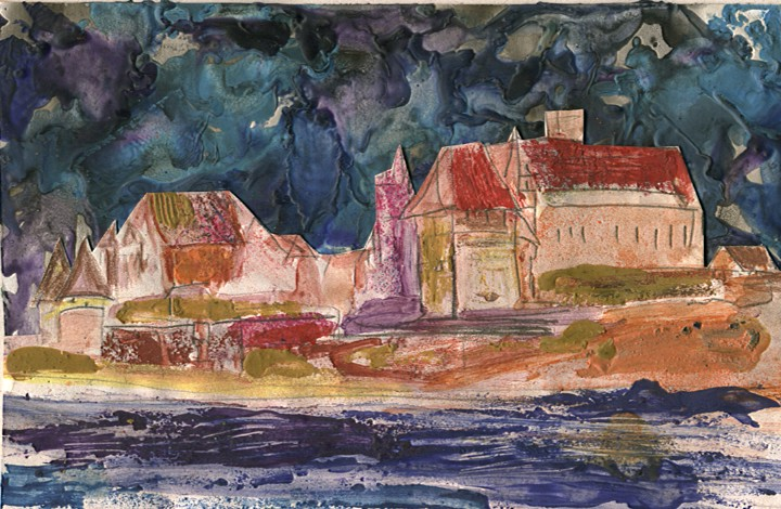 Castle in Malbork - oiled chalk